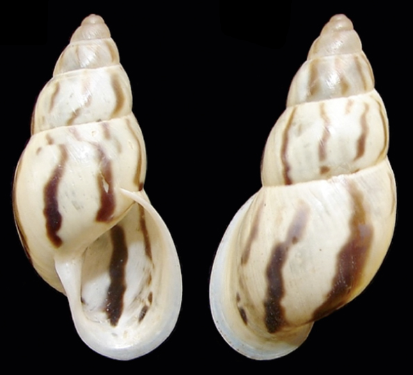 Photo of apertural and abapertural view of the shell of Drymaeus strigatus. RMNH 114062, shell height 21.7 mm.